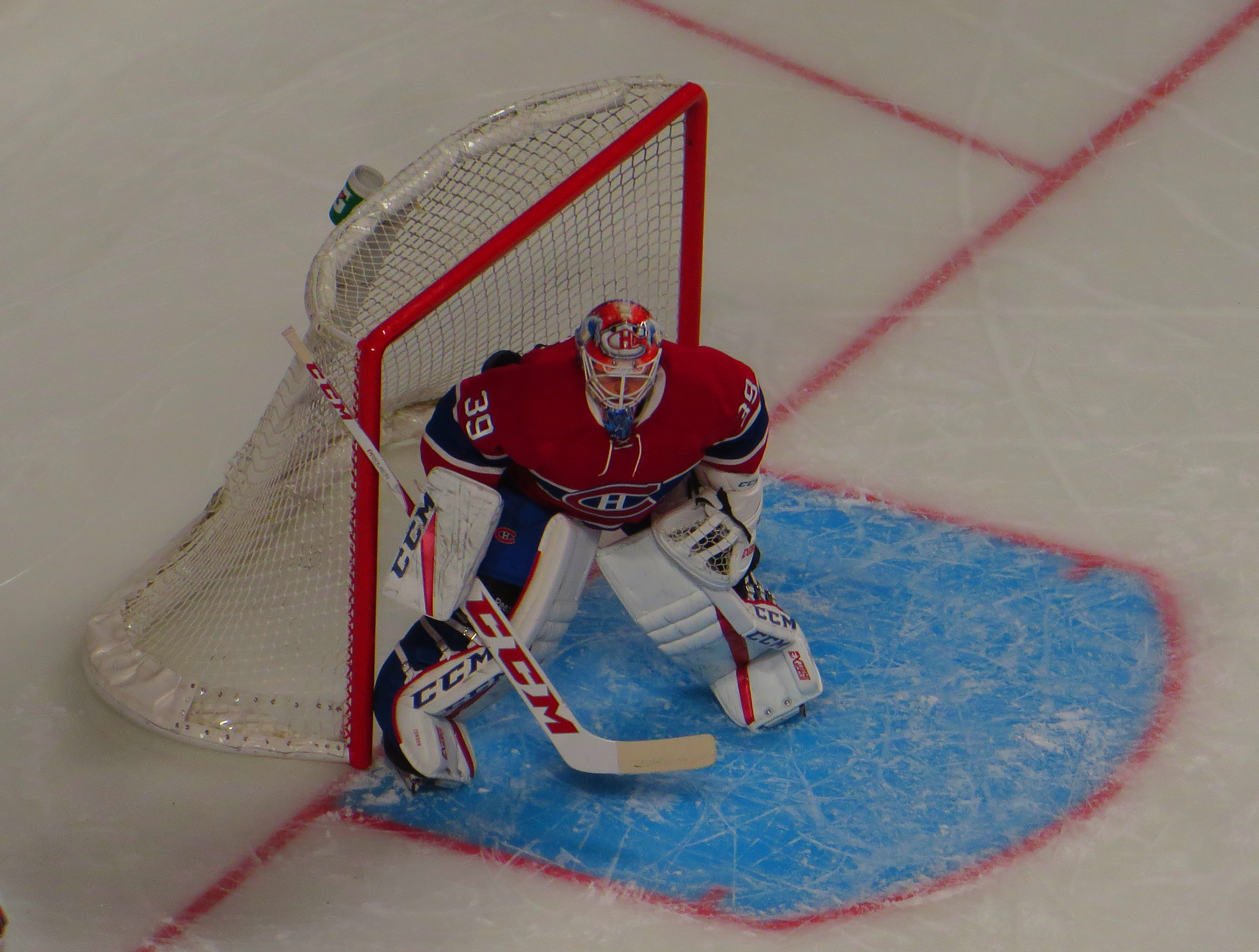 Michael "Mike" Johnston Condon (born April 27, 1990) is an American professional ice hockey goaltender for the Ottawa Senators of the National Hockey League (NHL). On May 8, 2013, Condon signed his first professional contract with the Montreal Canadiens. On October 11, 2015, Condon started his first NHL game, leading the Canadiens to a 3–1 win against the Ottawa Senators. He stopped 20 of 21 shots, only allowing one goal against from Senators forward Jean-Gabriel Pageau. Senators goaltender Matt O'Connor made his NHL debut in the same game, making the two the first goaltenders to make their first NHL start on the same night since October 14, 1967. On November 9, Condon was named the NHL third star of the week for his play filling in for the injured Carey Price. On October 11, 2016, Condon was claimed off waivers from the Montreal Canadiens by the Pittsburgh Penguins after being waived the previous day. He would only play one period (20 minutes) in relief for the Penguins before being traded to the Ottawa Senators on November 2 for a fifth-round draft pick in 2017. Condon was acquired due to Senators' starter Craig Anderson facing an uncertain future after his wife was recently diagnosed with cancer, and backup Andrew Hammond being sidelined with an injury. In June 2017, Condon signed a 3 year $7.2M contract extension with the Ottawa Senators after being credited with saving the Senator's season 2016-2017 season by filling in for starter Craig Anderson during which time Condon set team records both for the most consecutive starts by a goalie (27 games) and for the fewest number of games needed to achieve 5 shutouts (32 games). (ice_hockey)